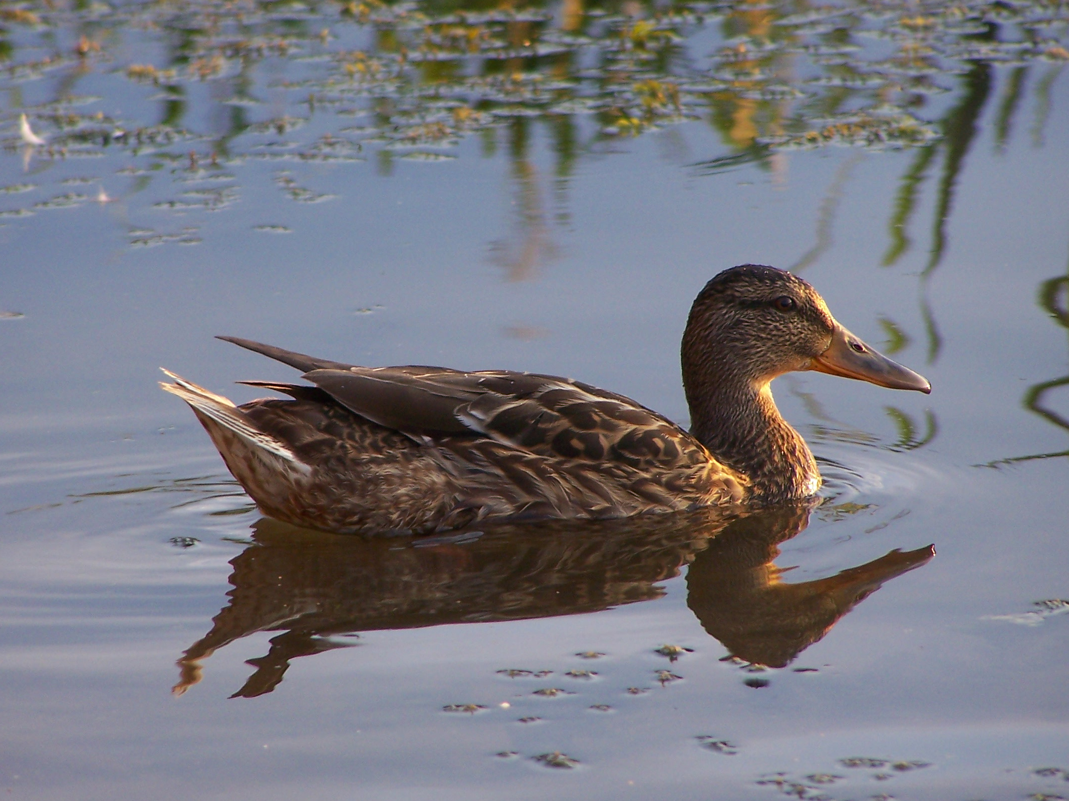 Female duck (Anas platyrhynchos) in Malbork.